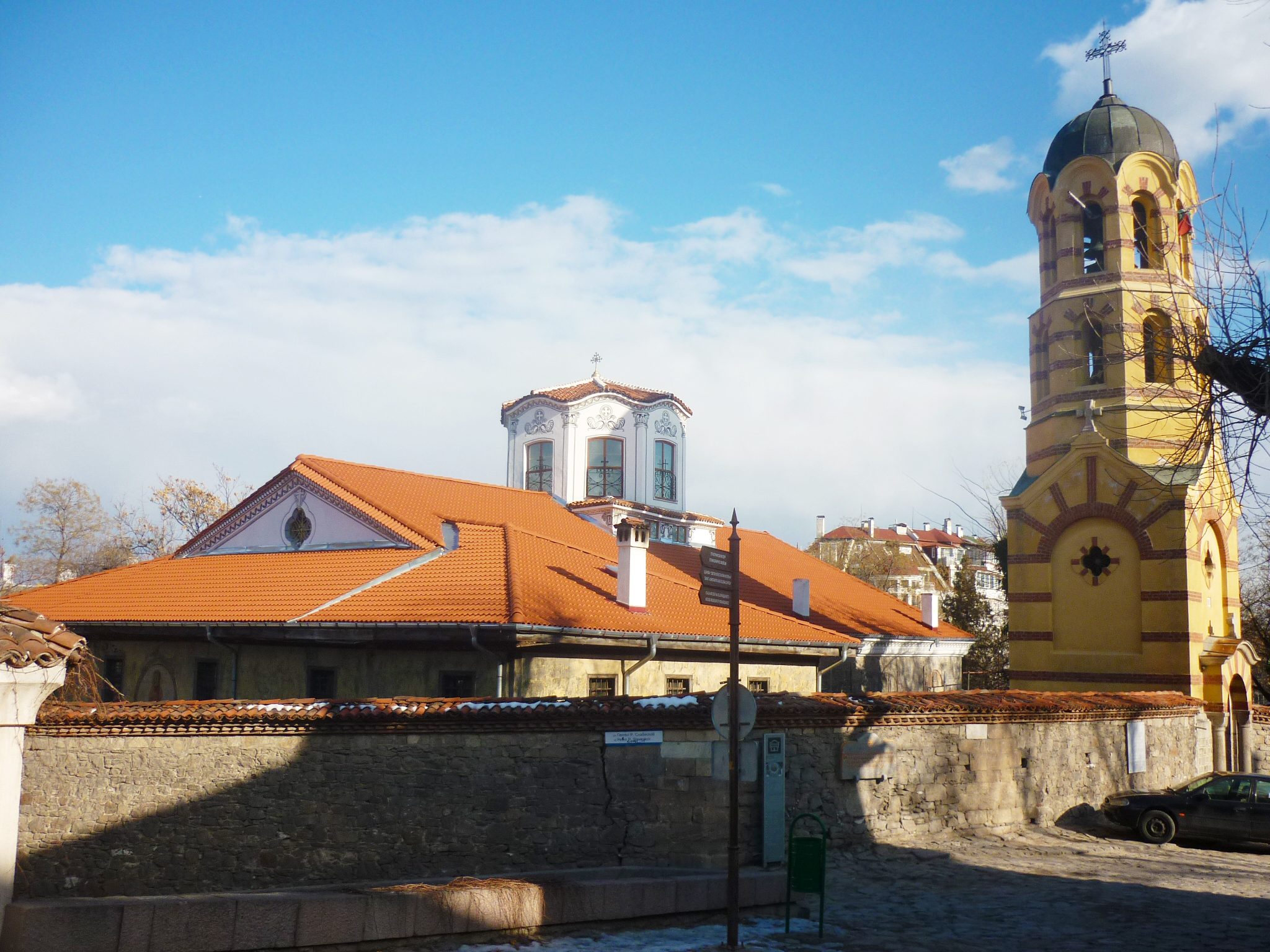 St. Nedelja church, Plovdiv (Bulgaria)